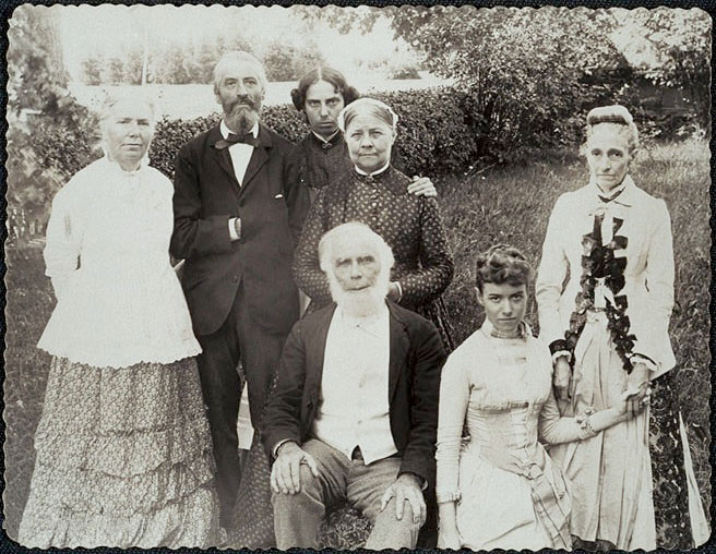 Alice Stone Blackwell's family with the Spoffords. From left, Dr. Elizabeth Blackwell, Henry Spofford (Librarian of Congress), Alice Stone Blackwell, Lucy Stone, Henry Blackwell, Miss Spofford, and Mrs. Spofford.